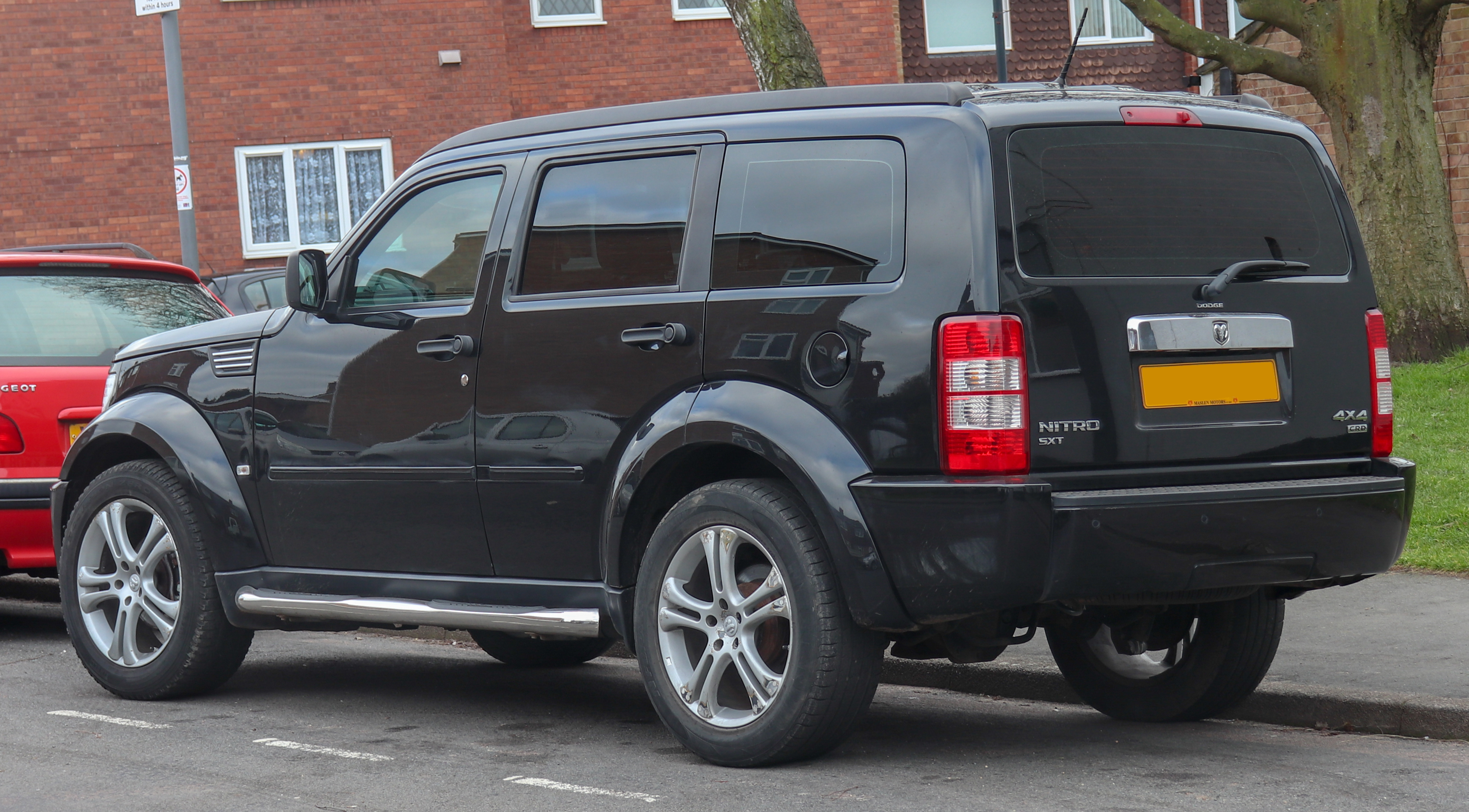 2008 Dodge Nitro SXT CRD Automatic 2.8 Rear Taken in Warwick